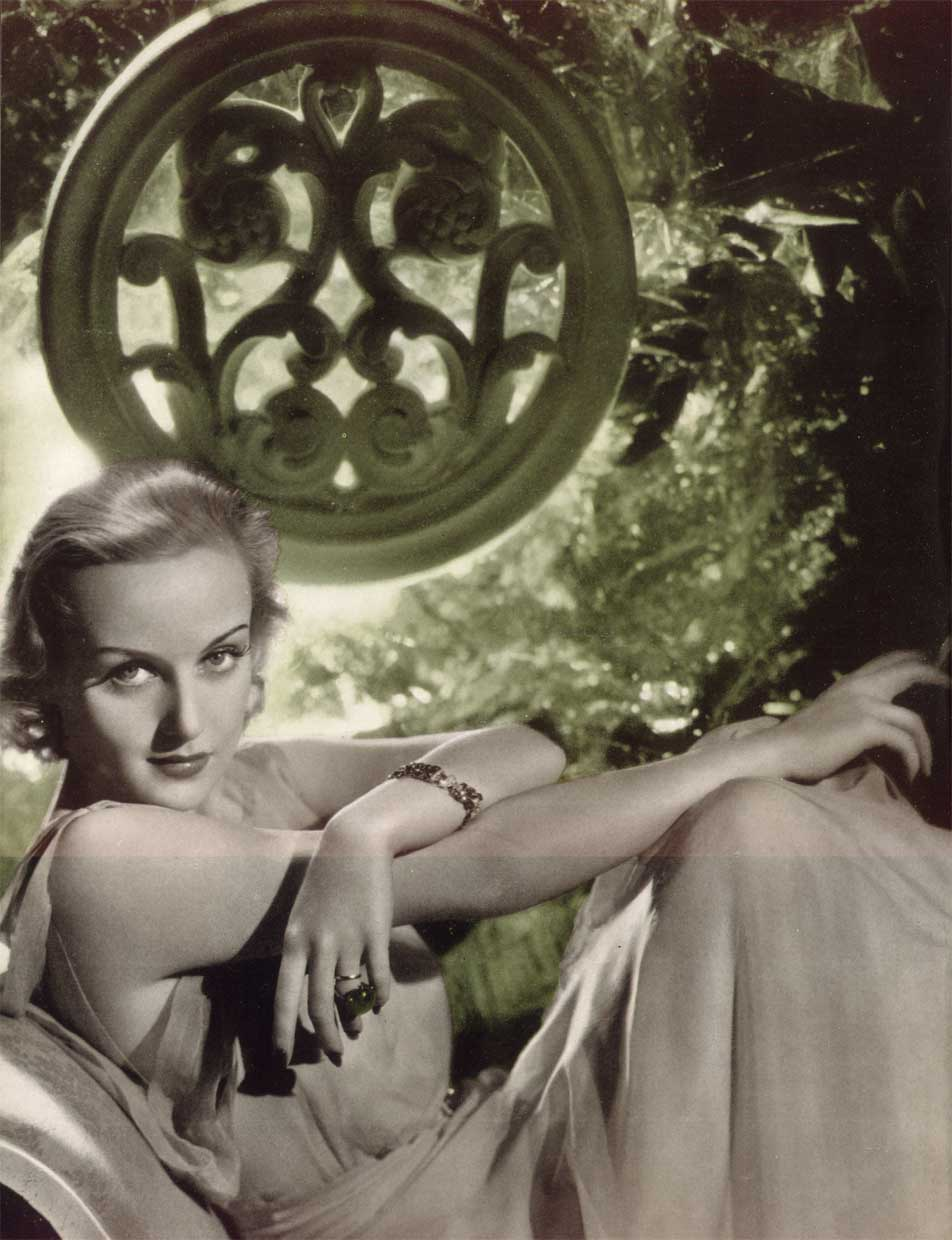 Promotional photo of Carole Lombard in Argentina’s Magazine. (Printed in USA)